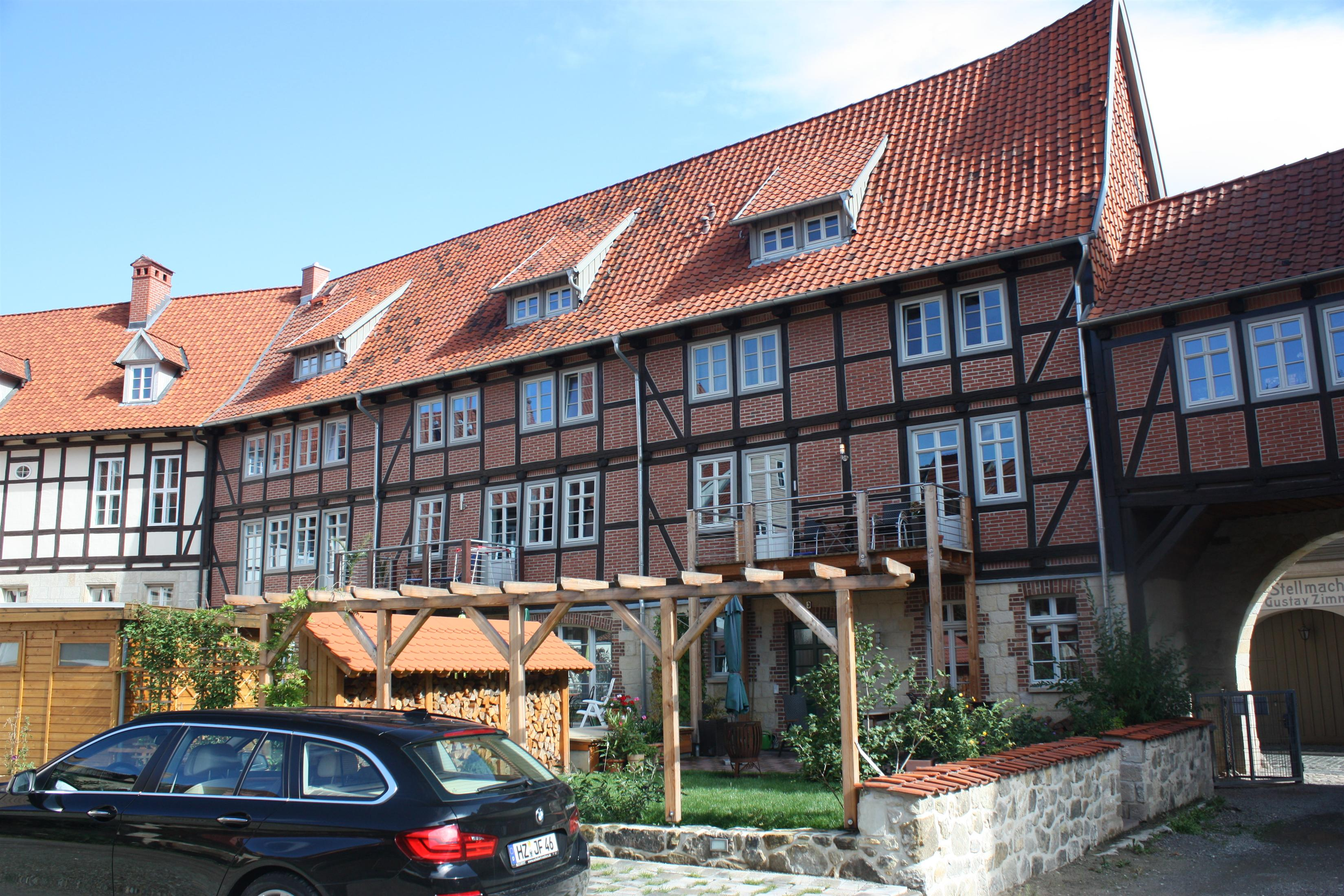 This is a photograph of an architectural monument.It is on the list of cultural monuments of Quedlinburg Quedlinburg Lange Gasse